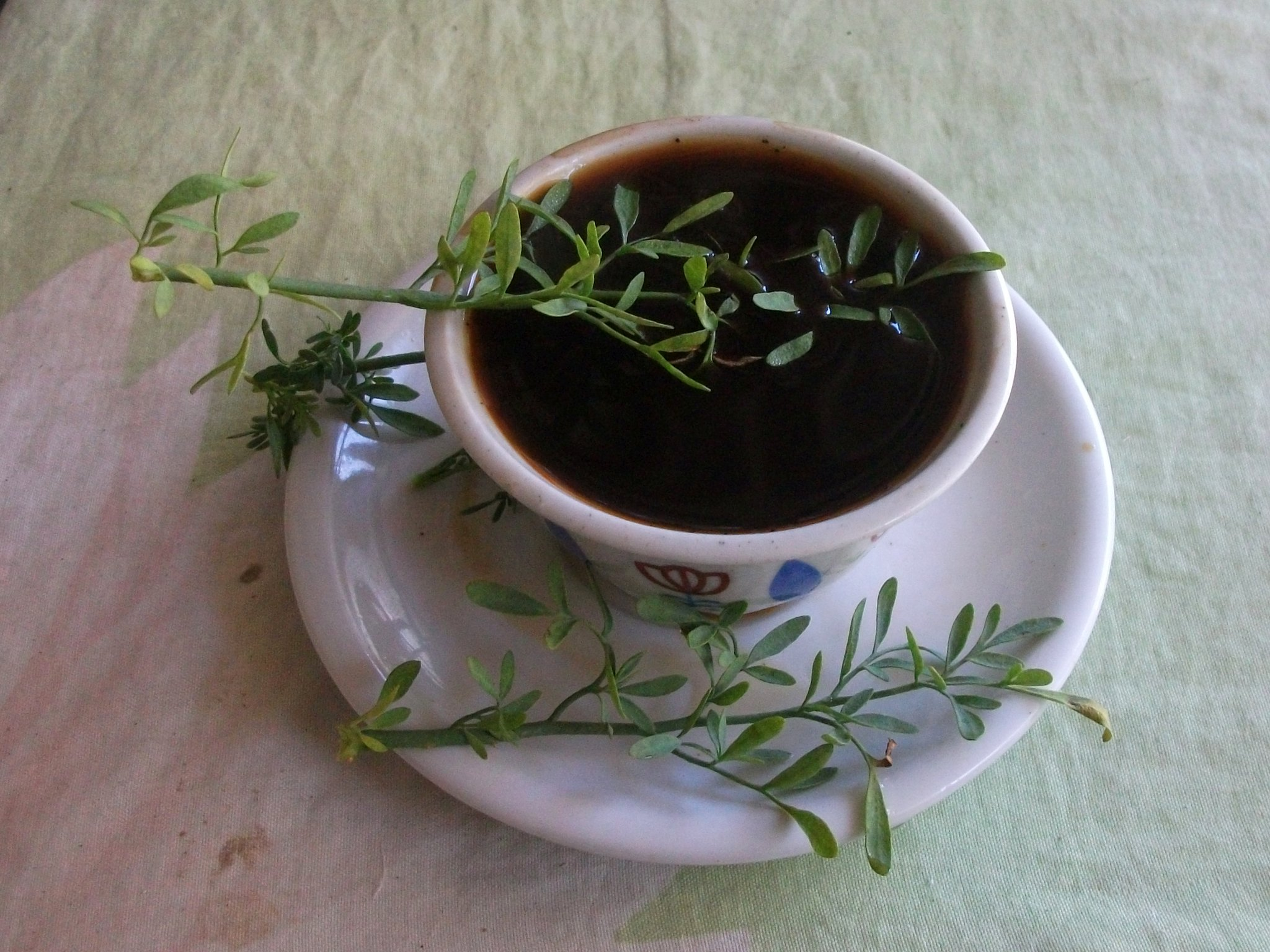 Rue (Ruta graveolens) in a cup of coffee in Ethiopia